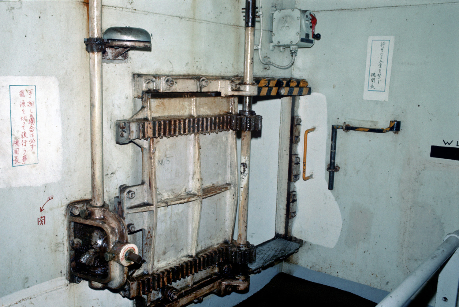 MS SORACHI MARU 1 Water Tight Sluice Door through the Water Tight Bulkhead between the No.3 Hold and the No.4 Hold. However,opposite side of the Door there is a tunnel through the No.4 Hold. This tunnel leads to the Steering engine room.